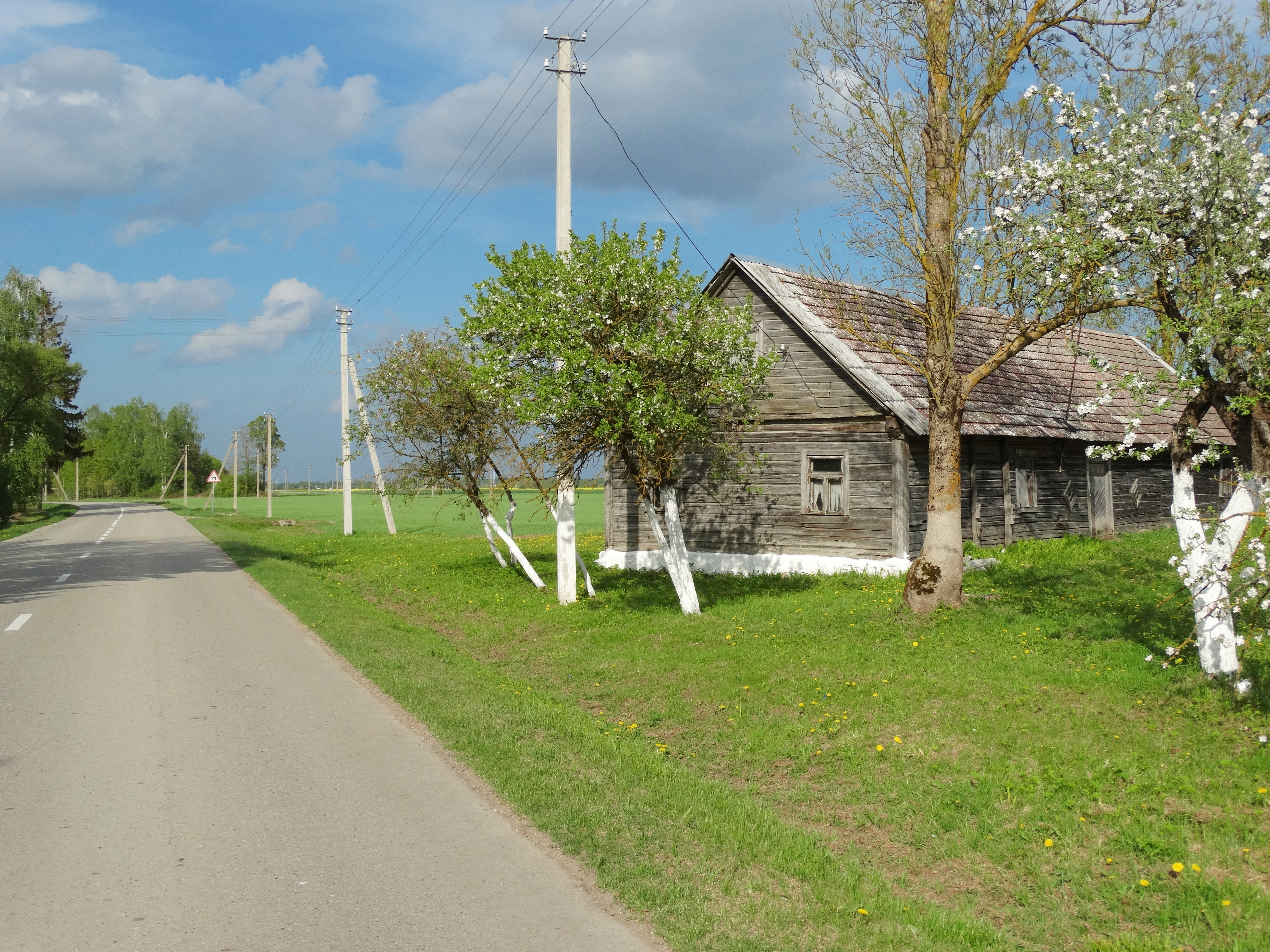 Gaubiai, Pakruojis district, Lithuania